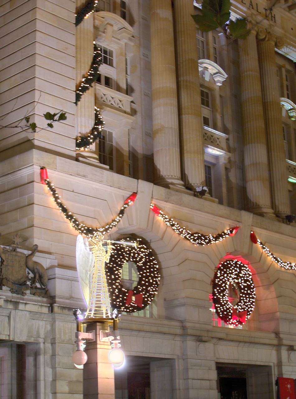 Christmas decorations in Forrest Place and on the General Post Office building in Perth, Western Australia. HDR tonemapped by its photographer, azza-bazoo on Flickr.